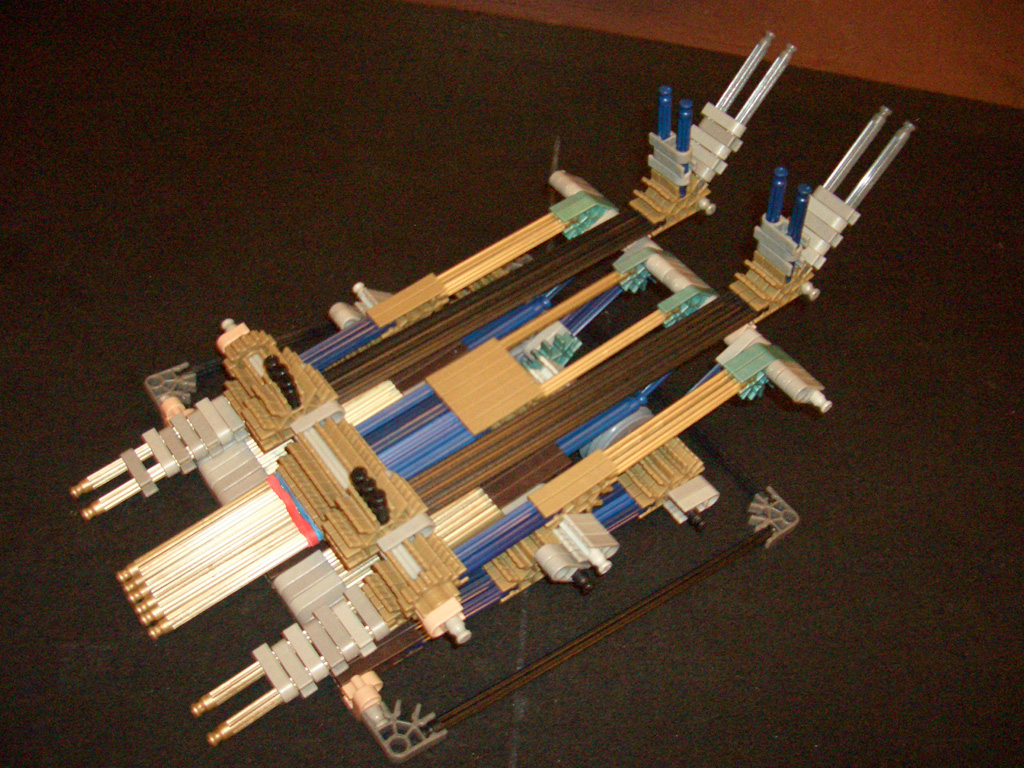 Own photograph, taken August 2006. Source